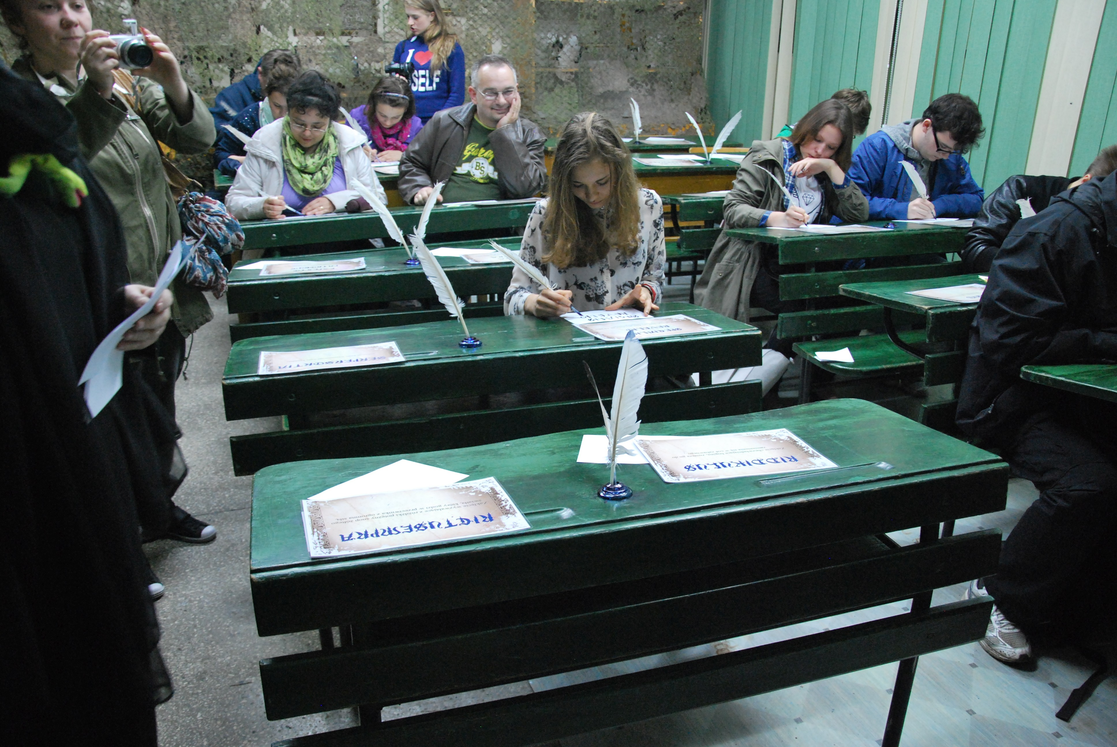 Long Night of Museums in Łódź 2014 Museum of Education